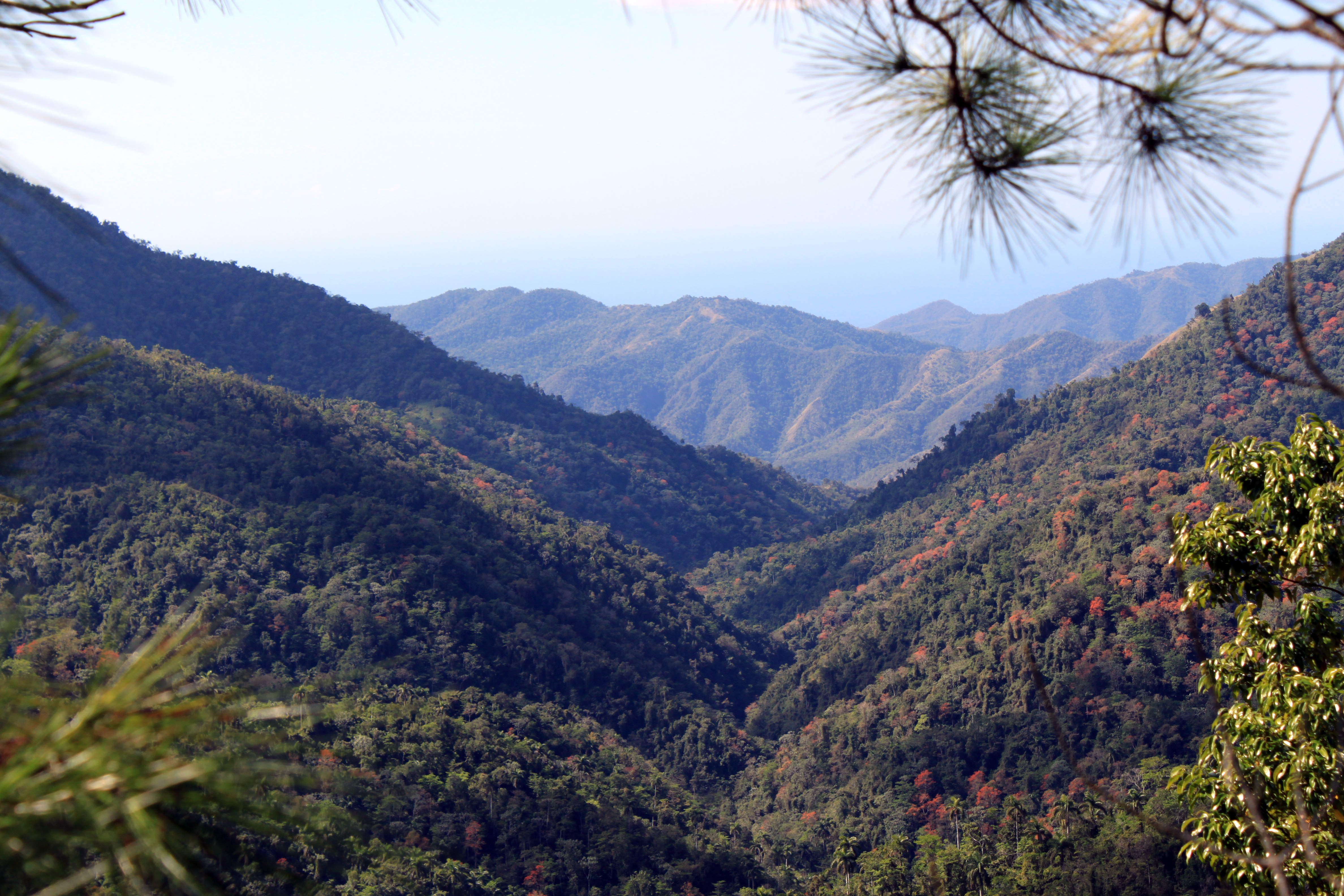 Sierra Maestra (Turquino National Park), Cuba